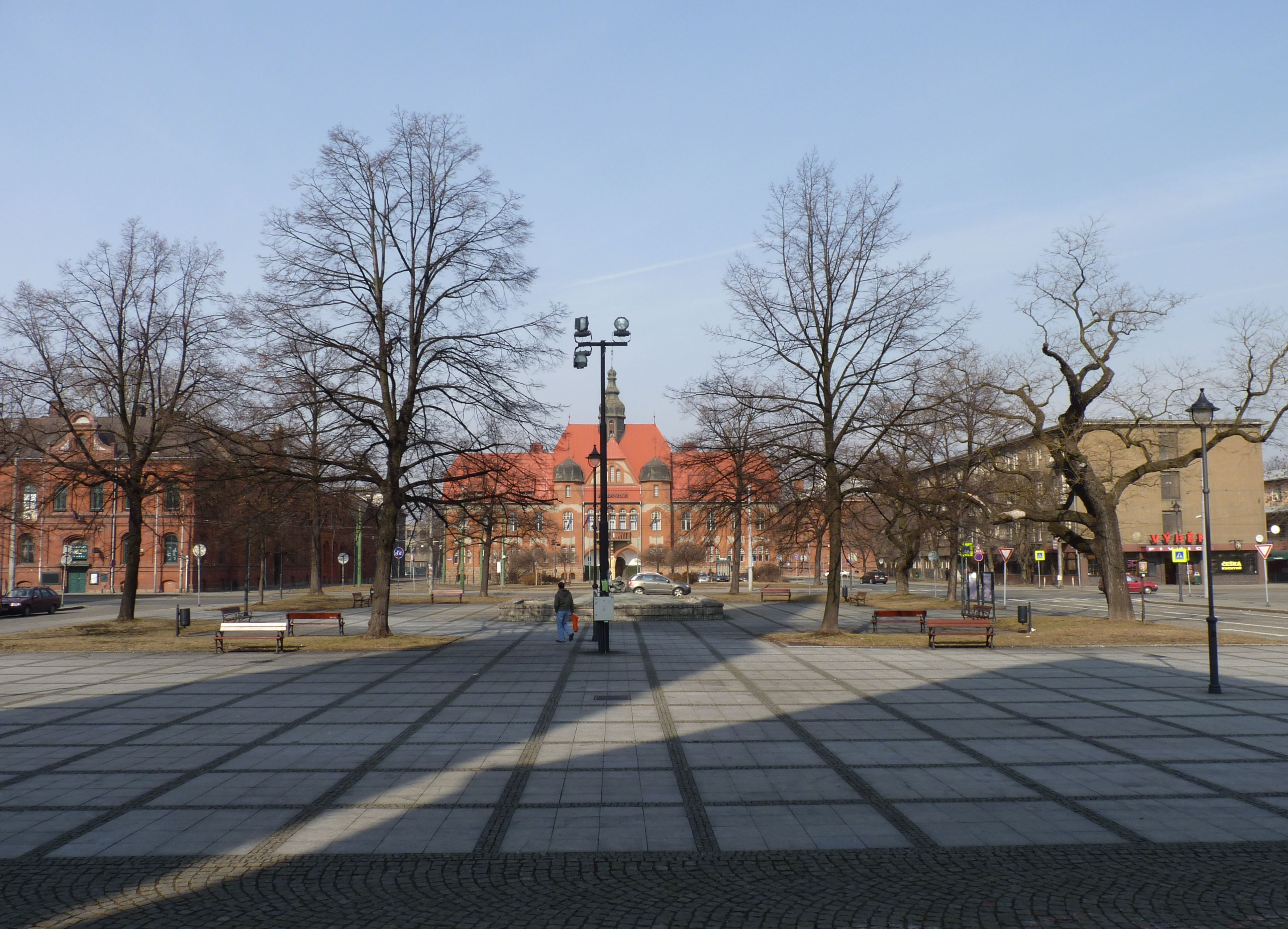 Ostrava-Vítkovice, Ostrava-city District, Moravian-Silesian Region, Czech Republic